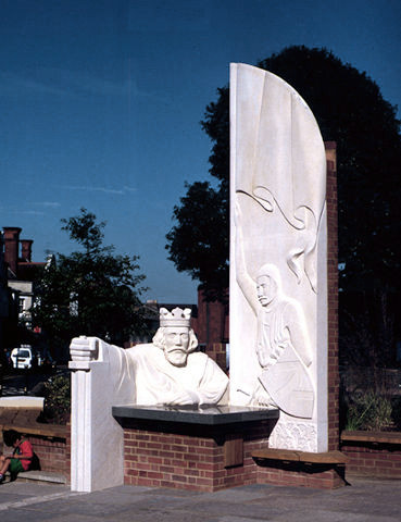 Sculpture portraying King John and Baron Fitzwalter in the act of sealing the Magna Carta. located in Egham town centre, Surrey, UK. Height approx 4 metres. constructed from Bath stone, brick, and Norwegian granite.